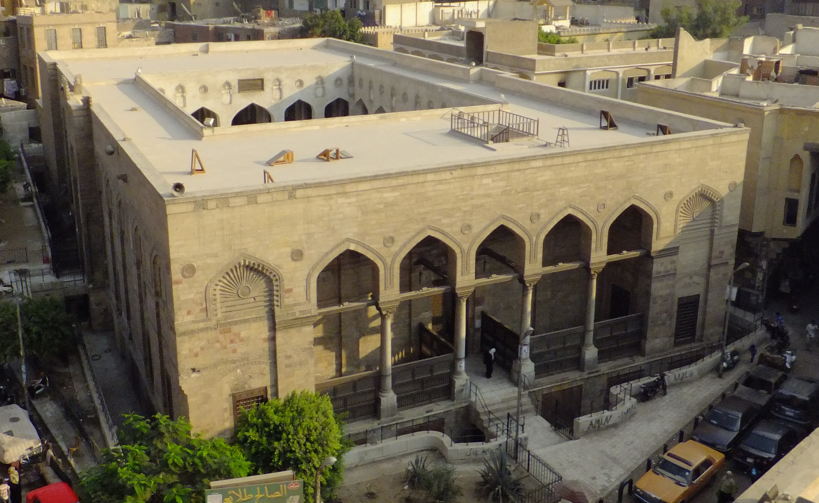 The mosque of Salih Tala'i, as seen from Bab Zuweila.